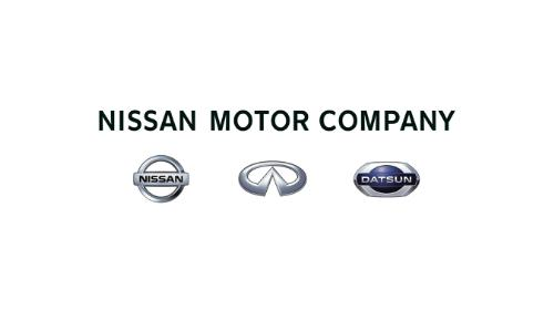 Nissan Company corporate logo as of May 2013